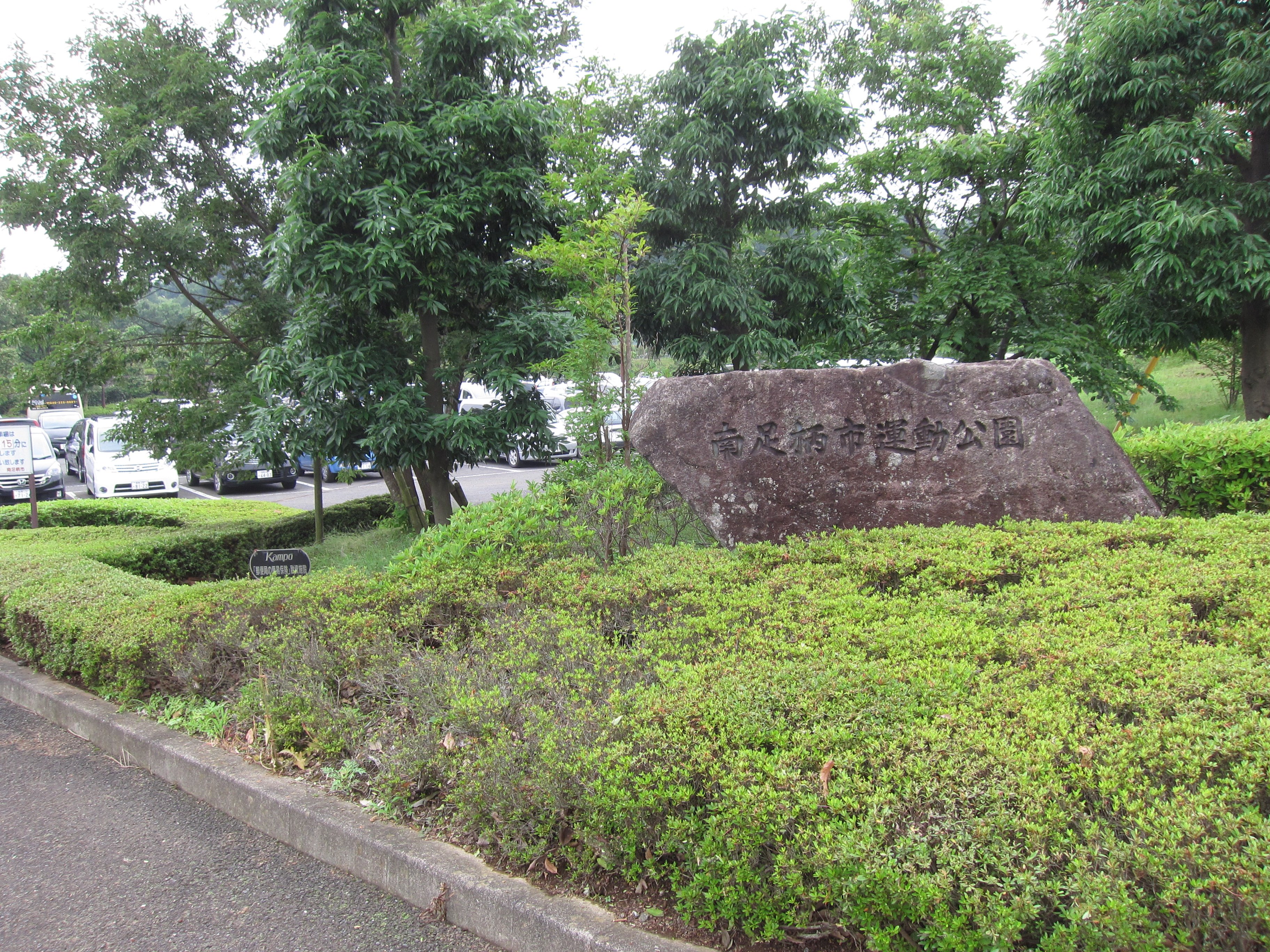 Minami Ashigara Sports Park